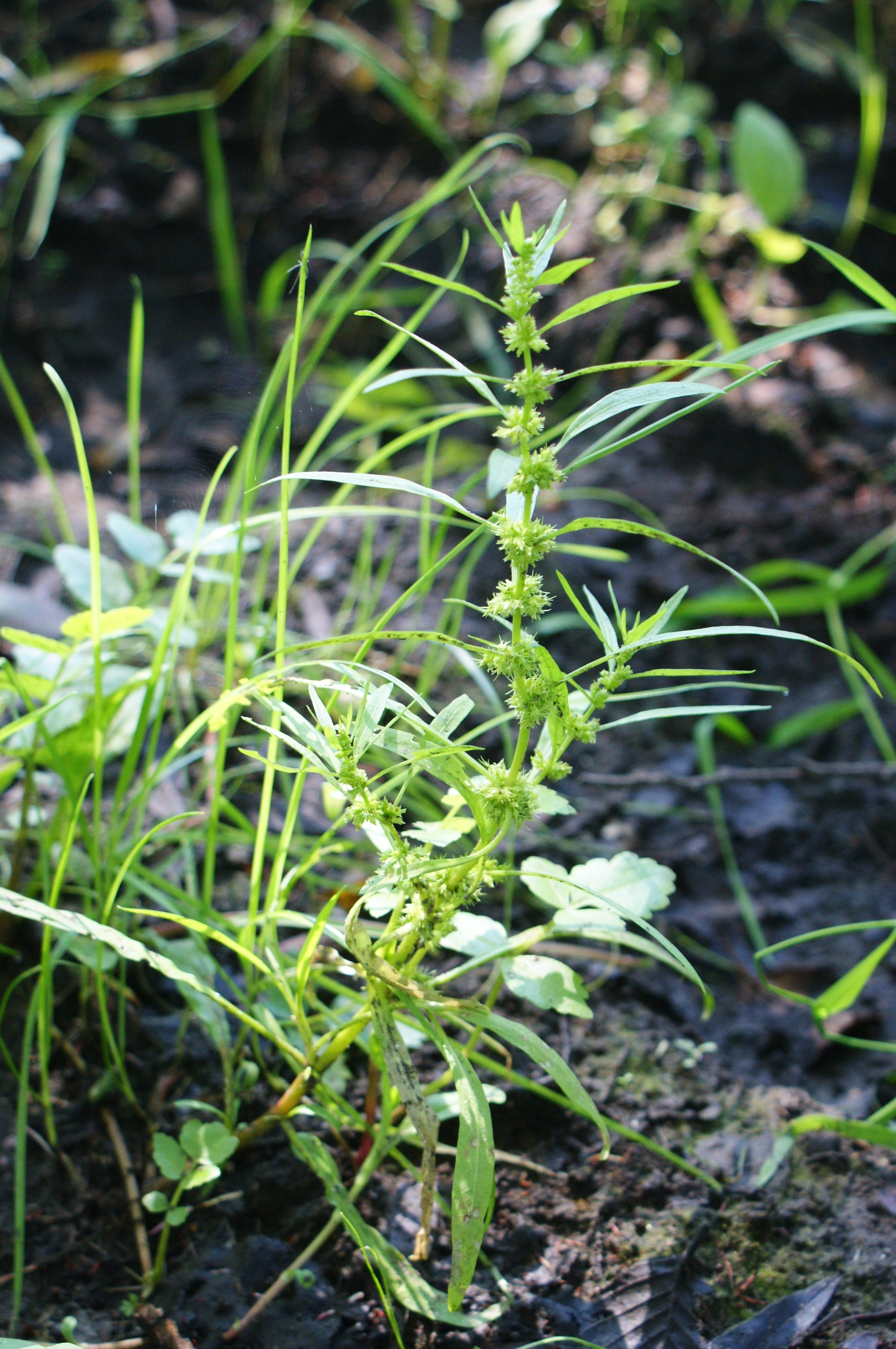 Rumex palustris (NW Poland)